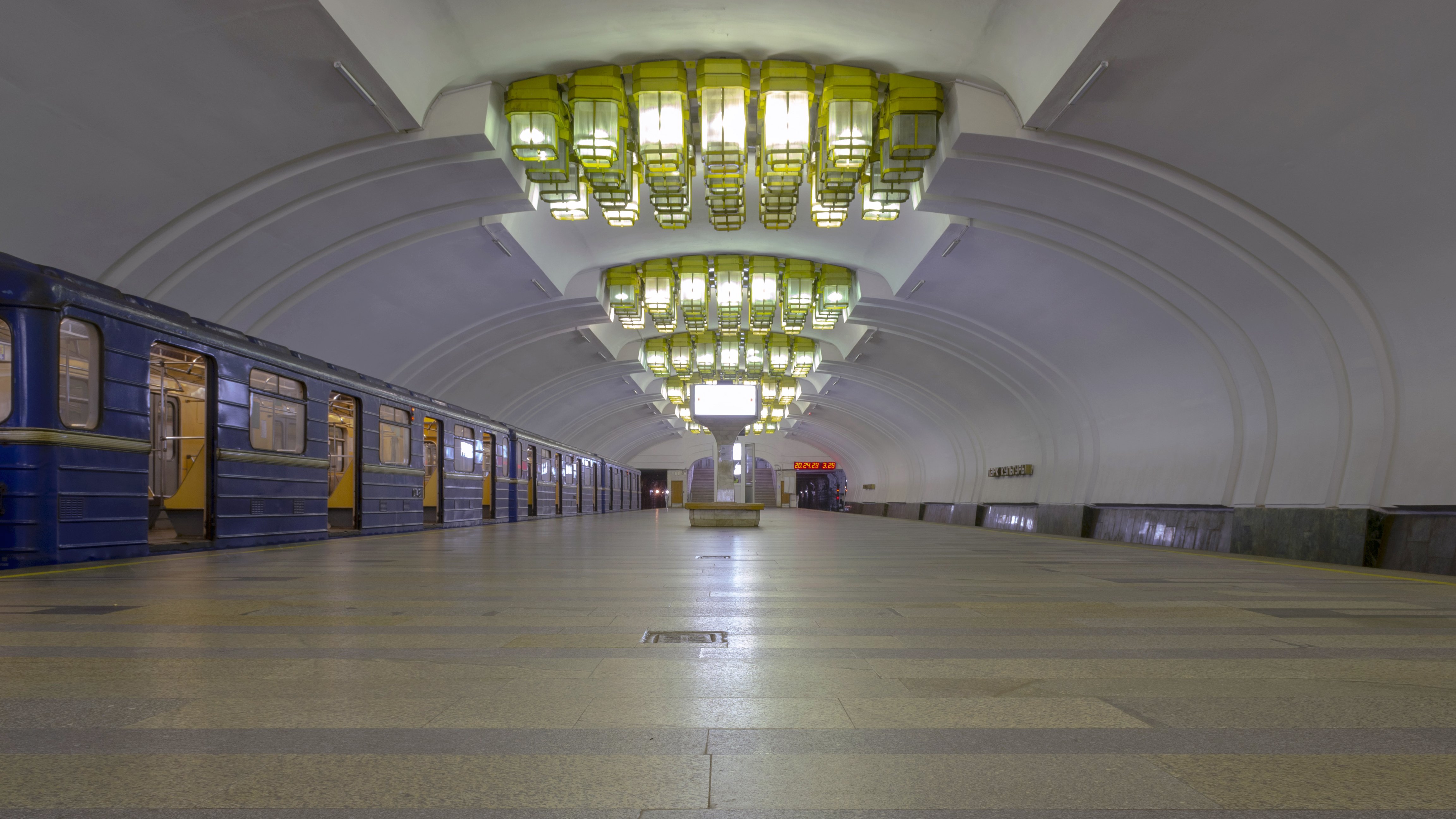 Park Kultury metro station in Nizhny Novgorod, Russia.